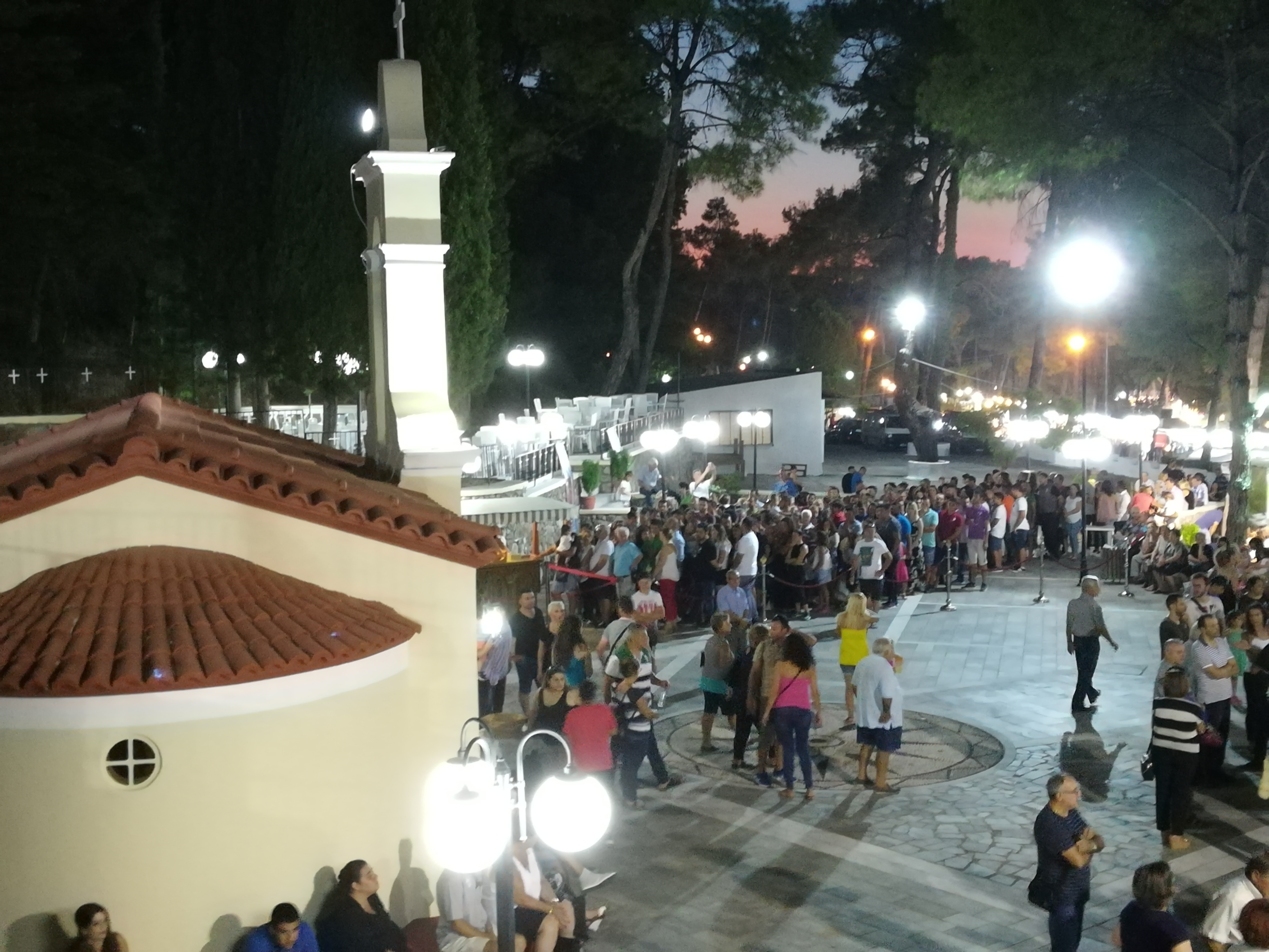 Soroni, Agios Soulas